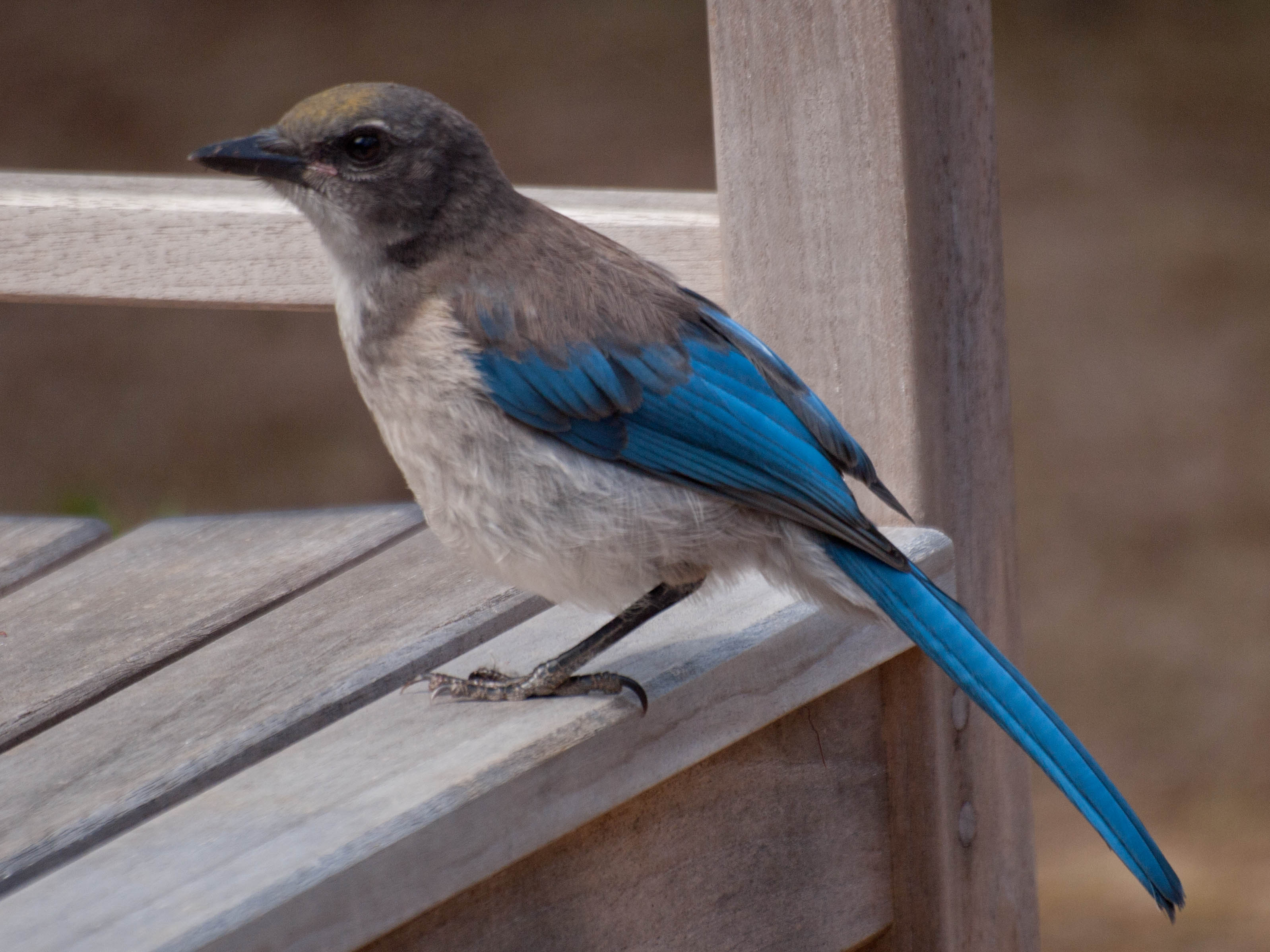 A juvenile Western Scrub-jay in Santa Cruz, California, USA.